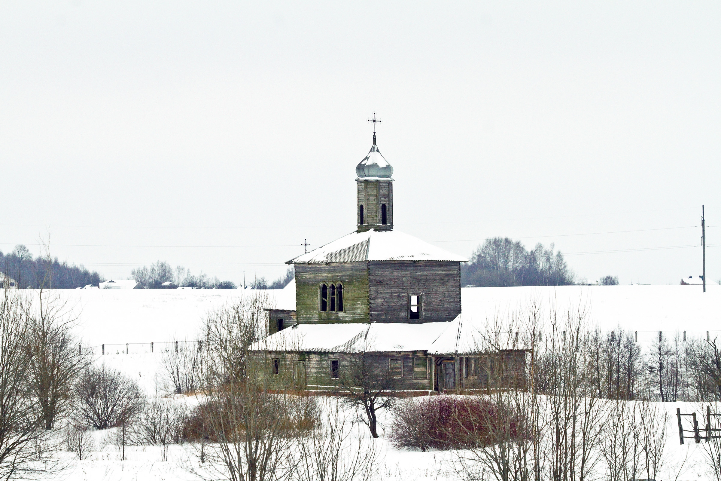 Church of the Transfiguration. State museum of folk architecture and life, Belarus.